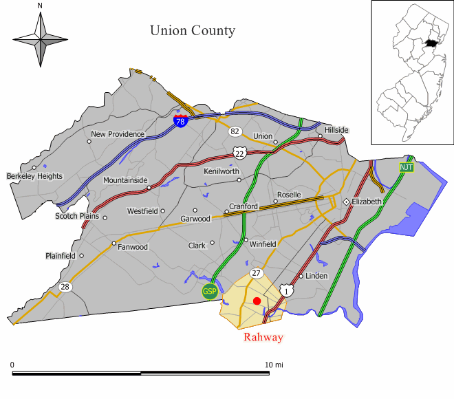 Locator map of Rahway in Union County, New Jersey